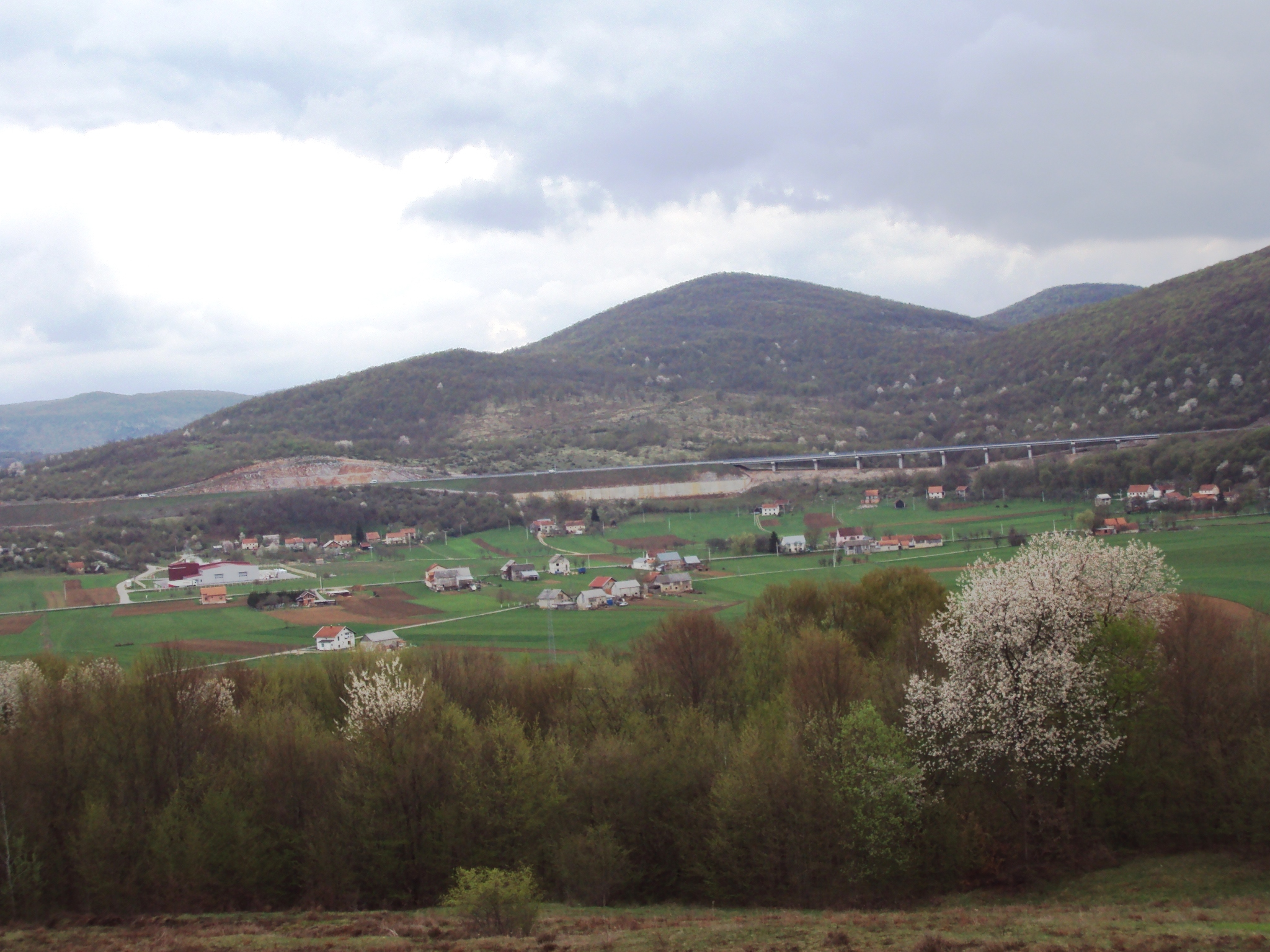 The village of Kompolje near Otočac, Region of Lika, Croatia